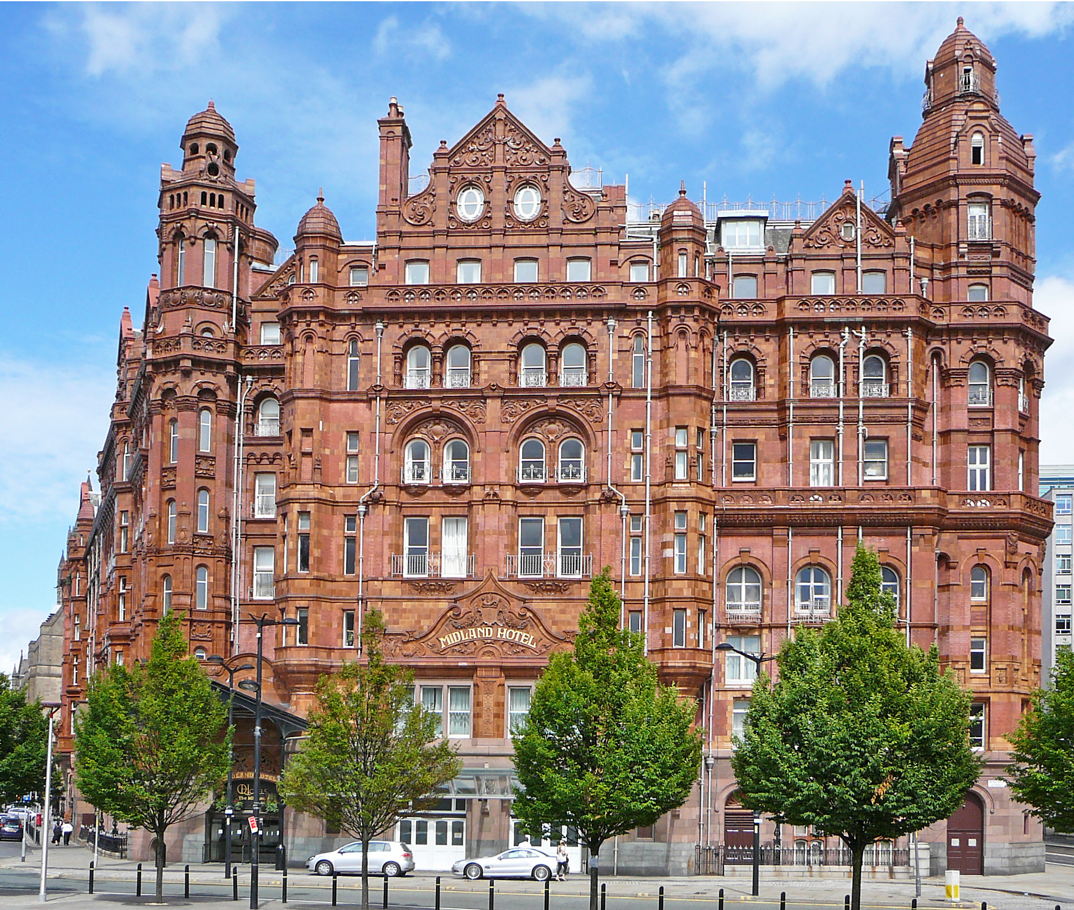 Midland Hotel, Manchester. Seen from the south west.